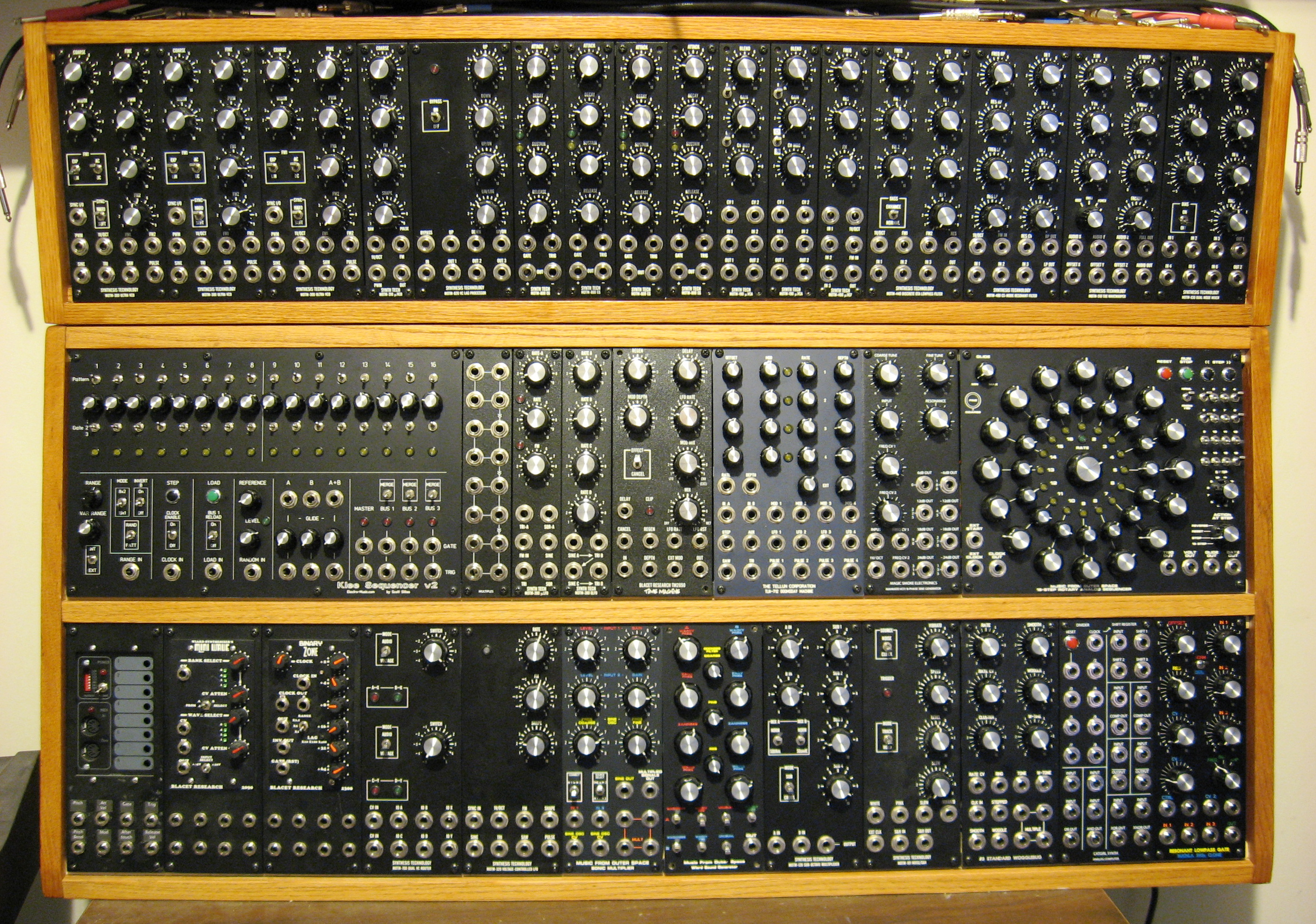 Here's how my modular synth looks today - I finally finished enough working modules to fill all the slots.